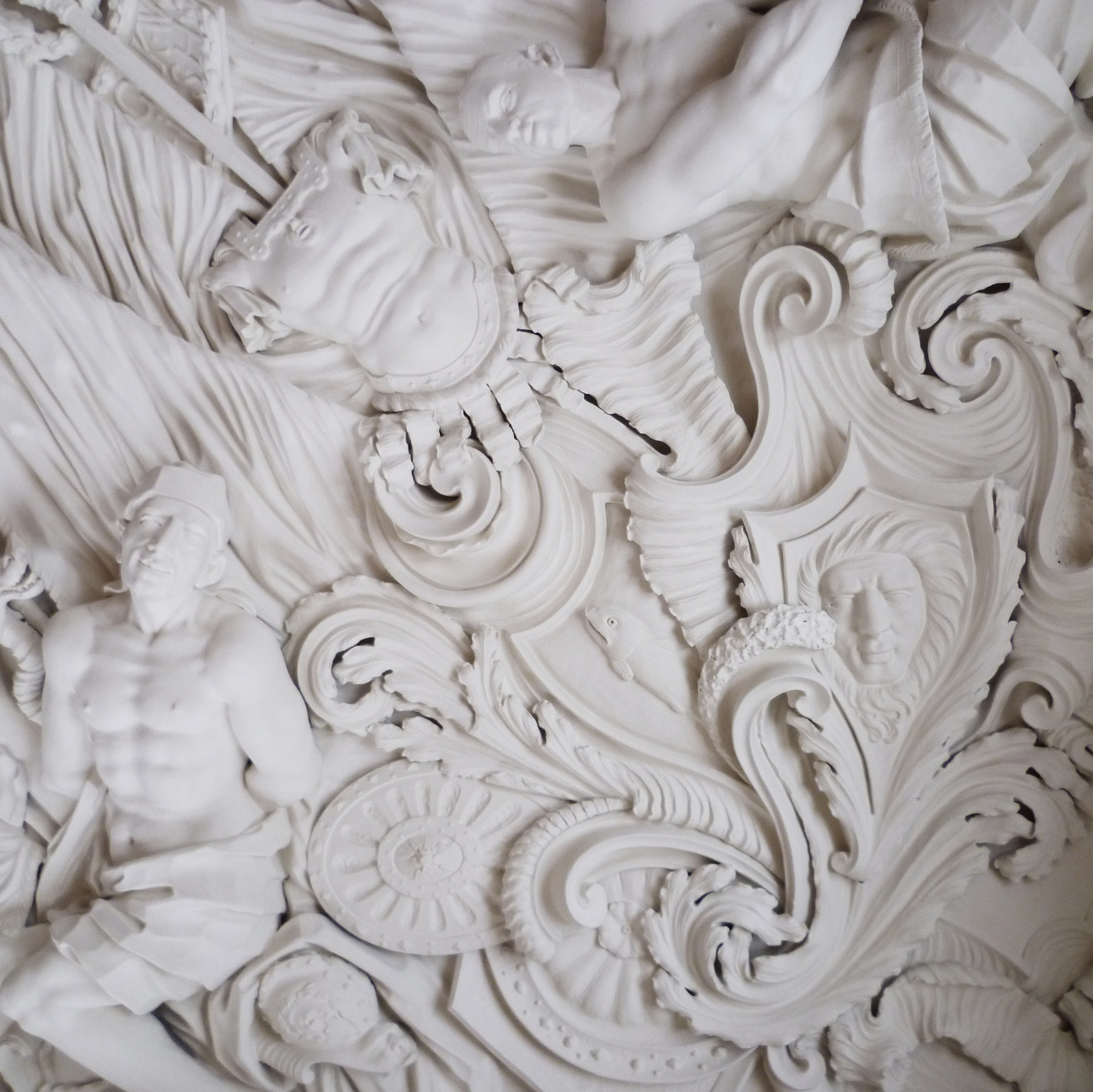 Giants' Hall, Sondershausen Palace, 1680-1700